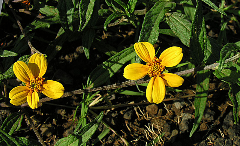 Native to the Oaxaca highlands, here at the Jardin Etnobotanico in Cuernavaca, Mexico. In context at